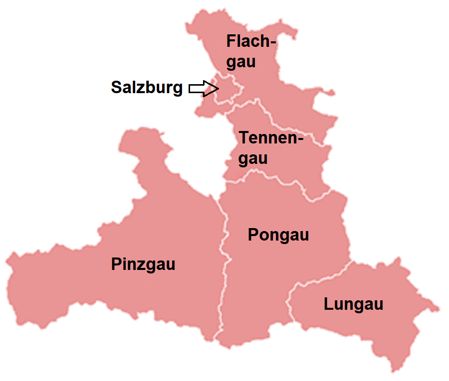 Map of Salzburg (state)